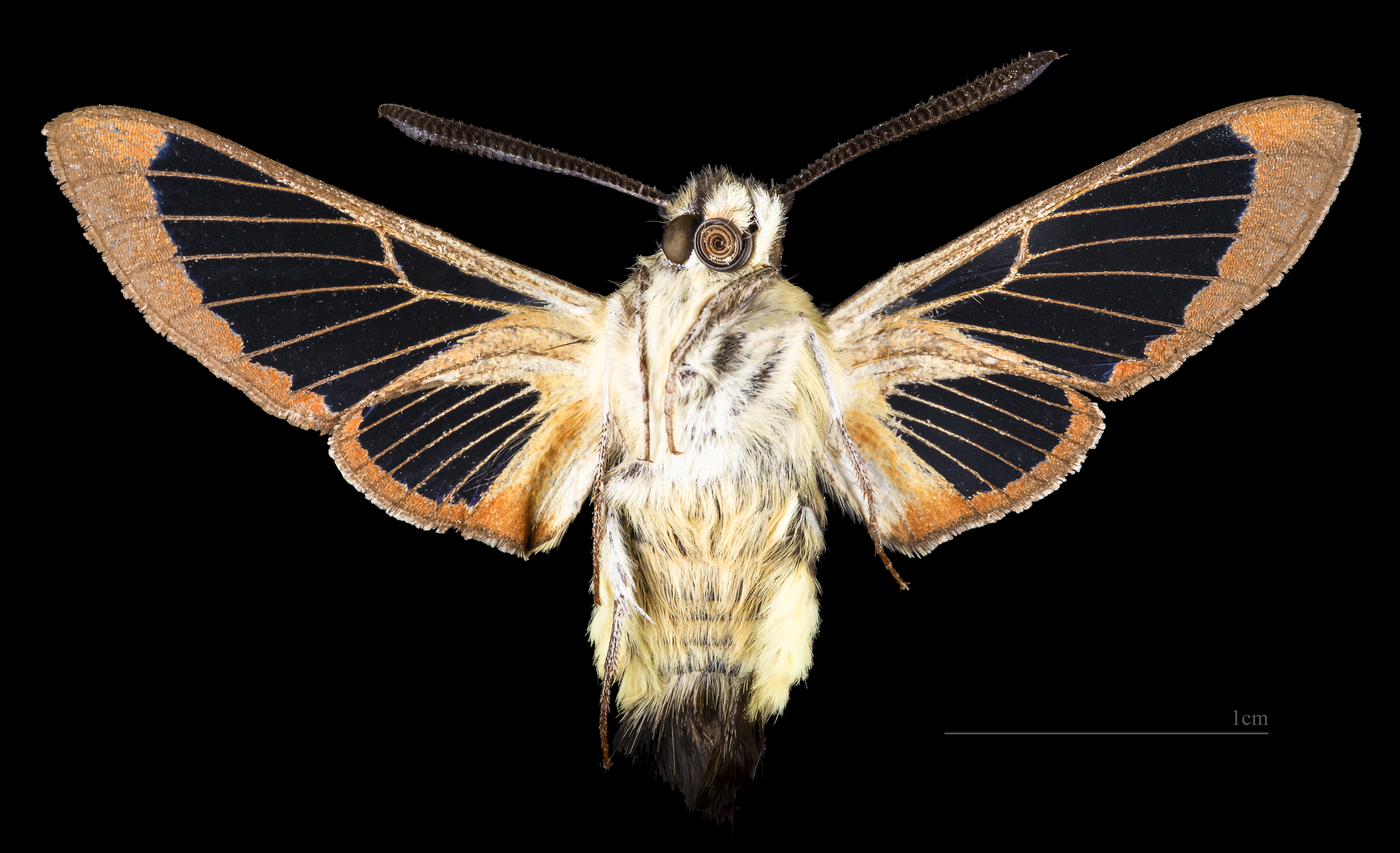 Hemaris thetis - △ Ventral side Collection of the Mathematician Laurent Schwartz